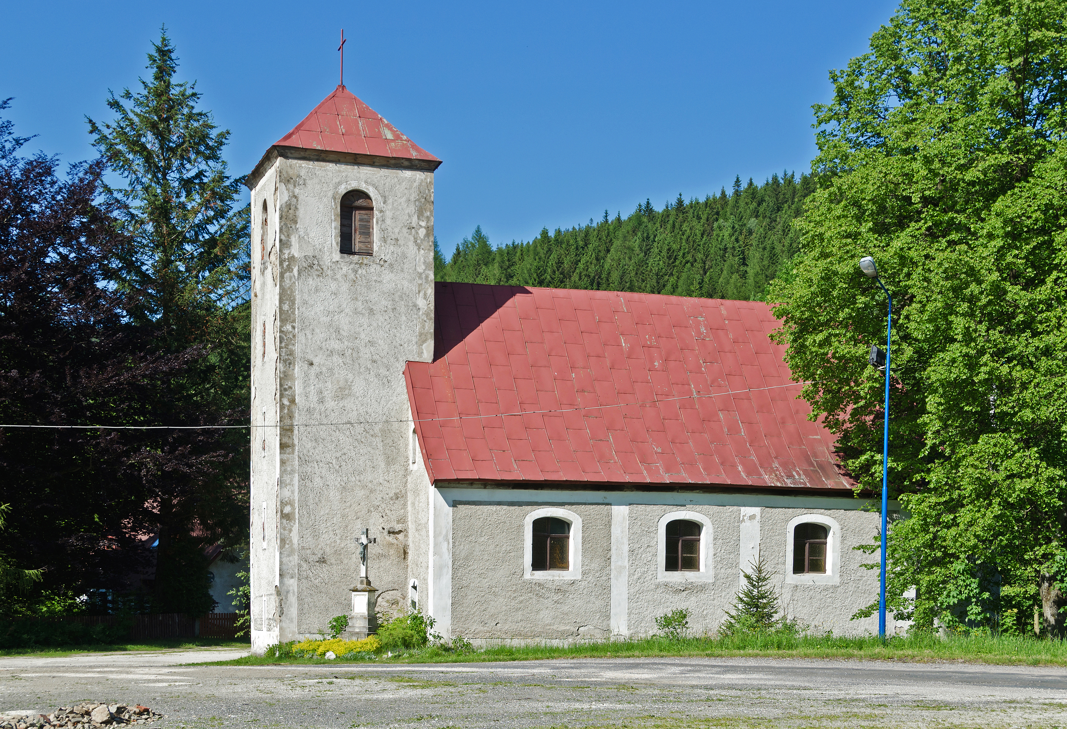 Saint Vincent church in Bielice